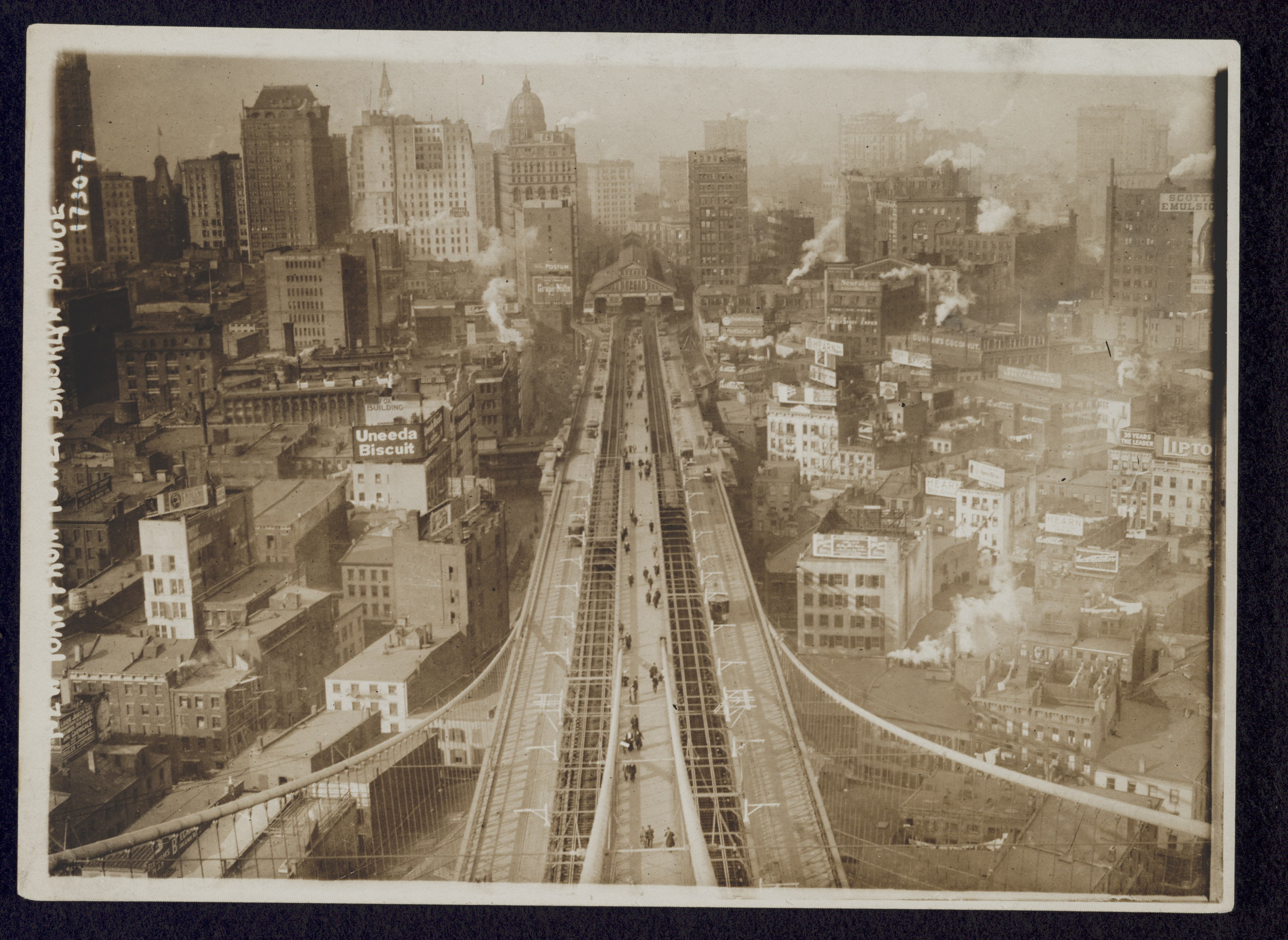 Title: New York from tower of Brooklyn Bridge Abstract/medium: 1 photographic print.